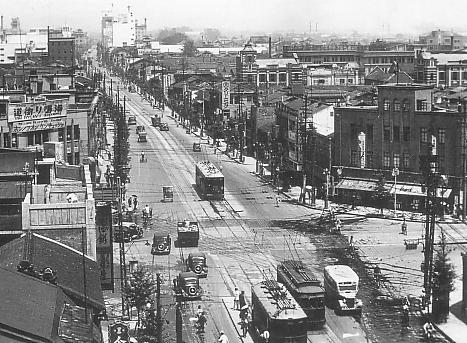 Kawaramachi-Dori circa 1935